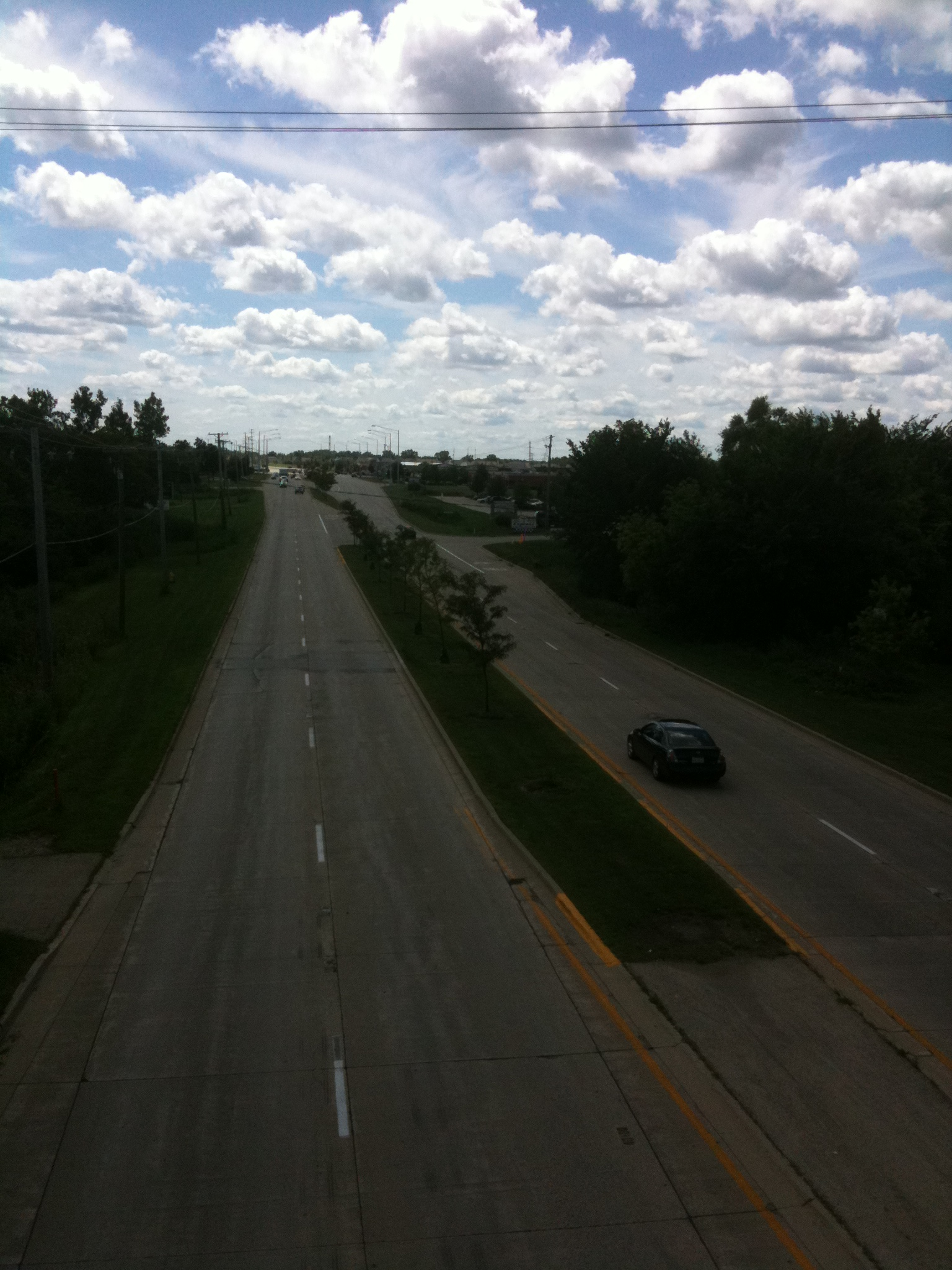 Photo of Illinois Route 59 in West Chicago, Illinois. Taken from the Illinois Prairie Path, facing south.